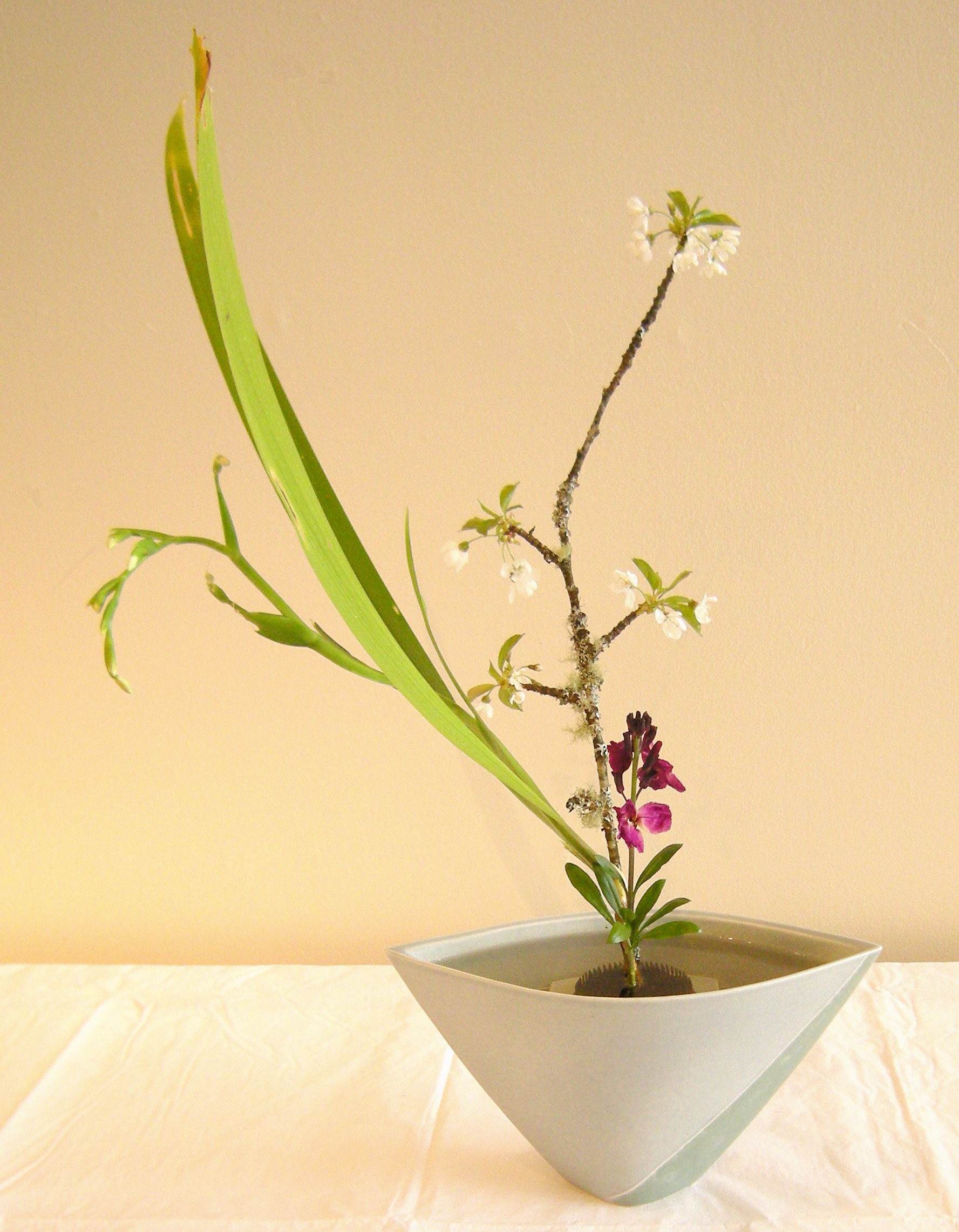 Ikenobo arrangement by Yoshiko Nakamura on display at Seattle Center, Seattle, Washington as part of the 2008 Cherry Blossom Festival.